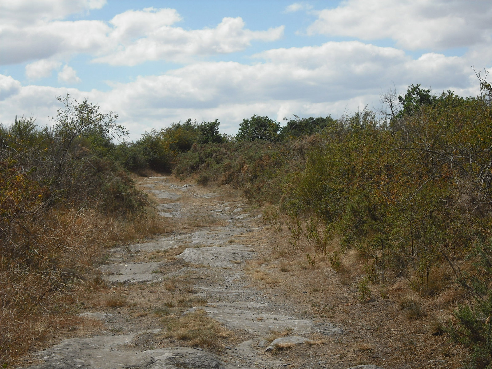 Moor near Candé, Maine-et-Loire, France